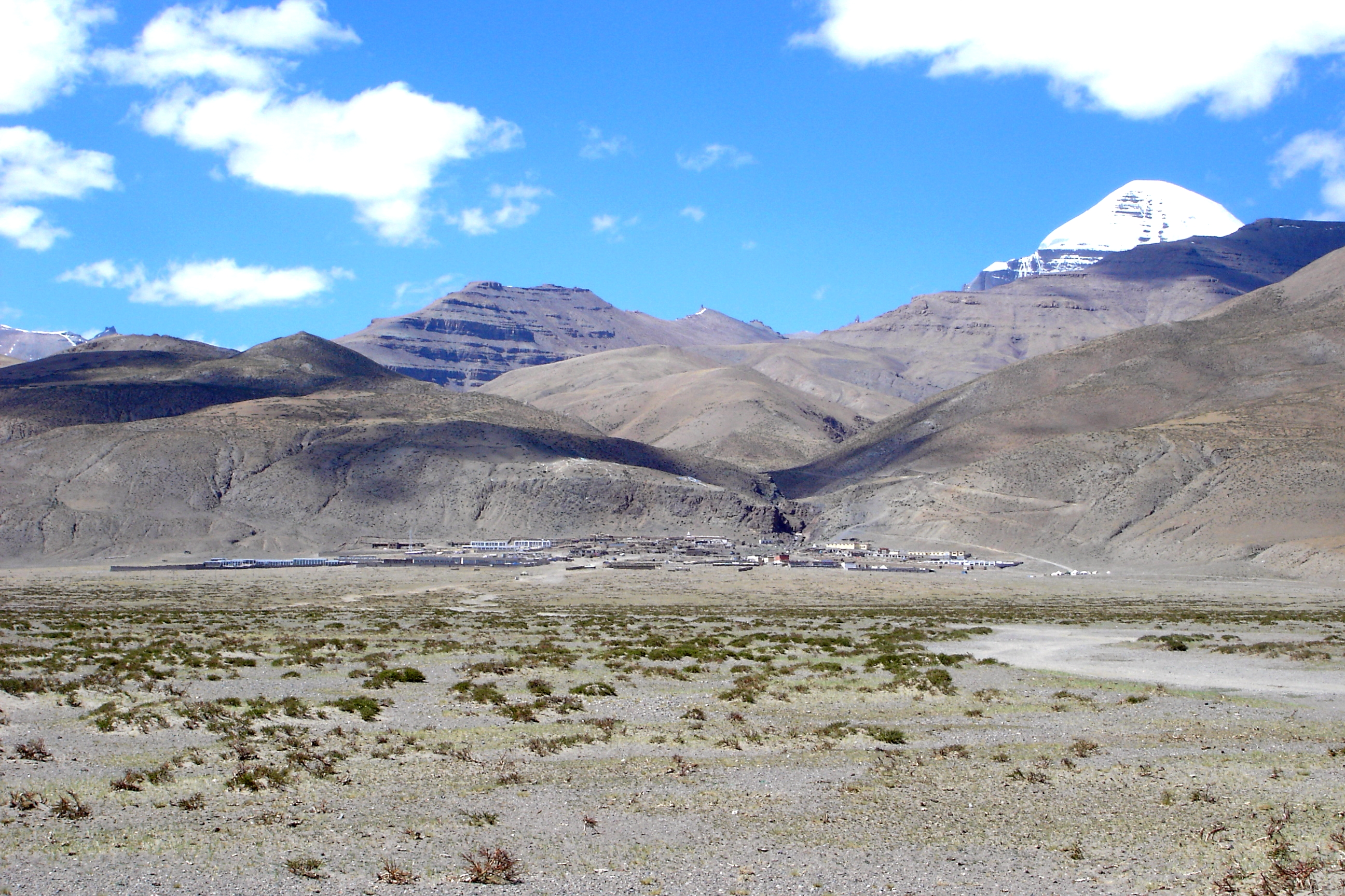 View of Darchen from the Barkha plain (Tibet Autonomous Region, People's Republic of China).